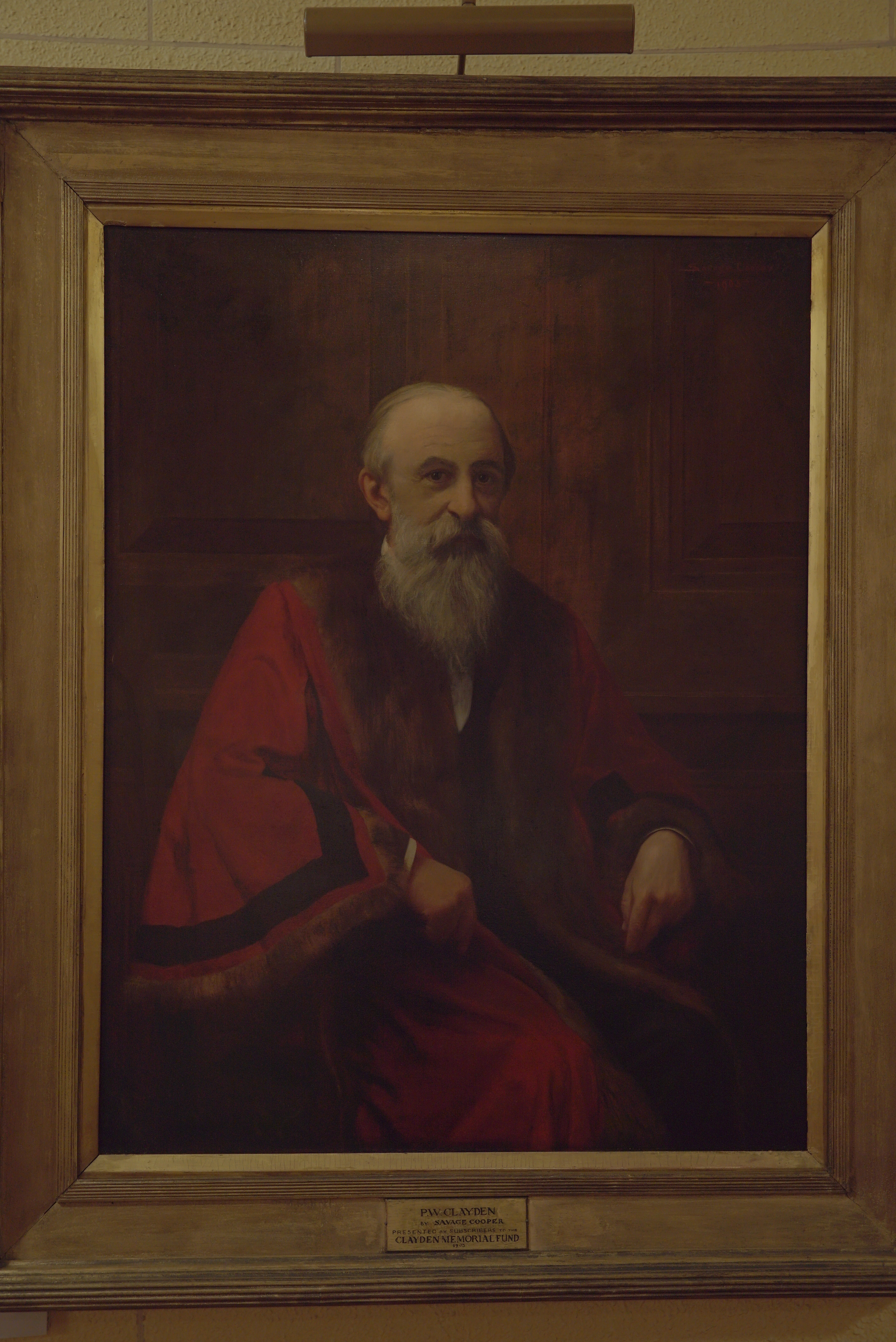 A portrait of P.W. Clayden at the NLC